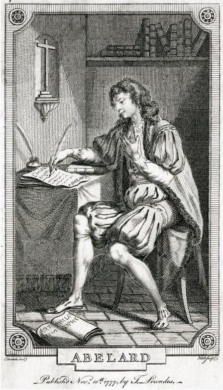 A print of Abelard neglecting his philosophical studies to write to Eloisa, published in London in 1777. The original design was by Edward Edwards.